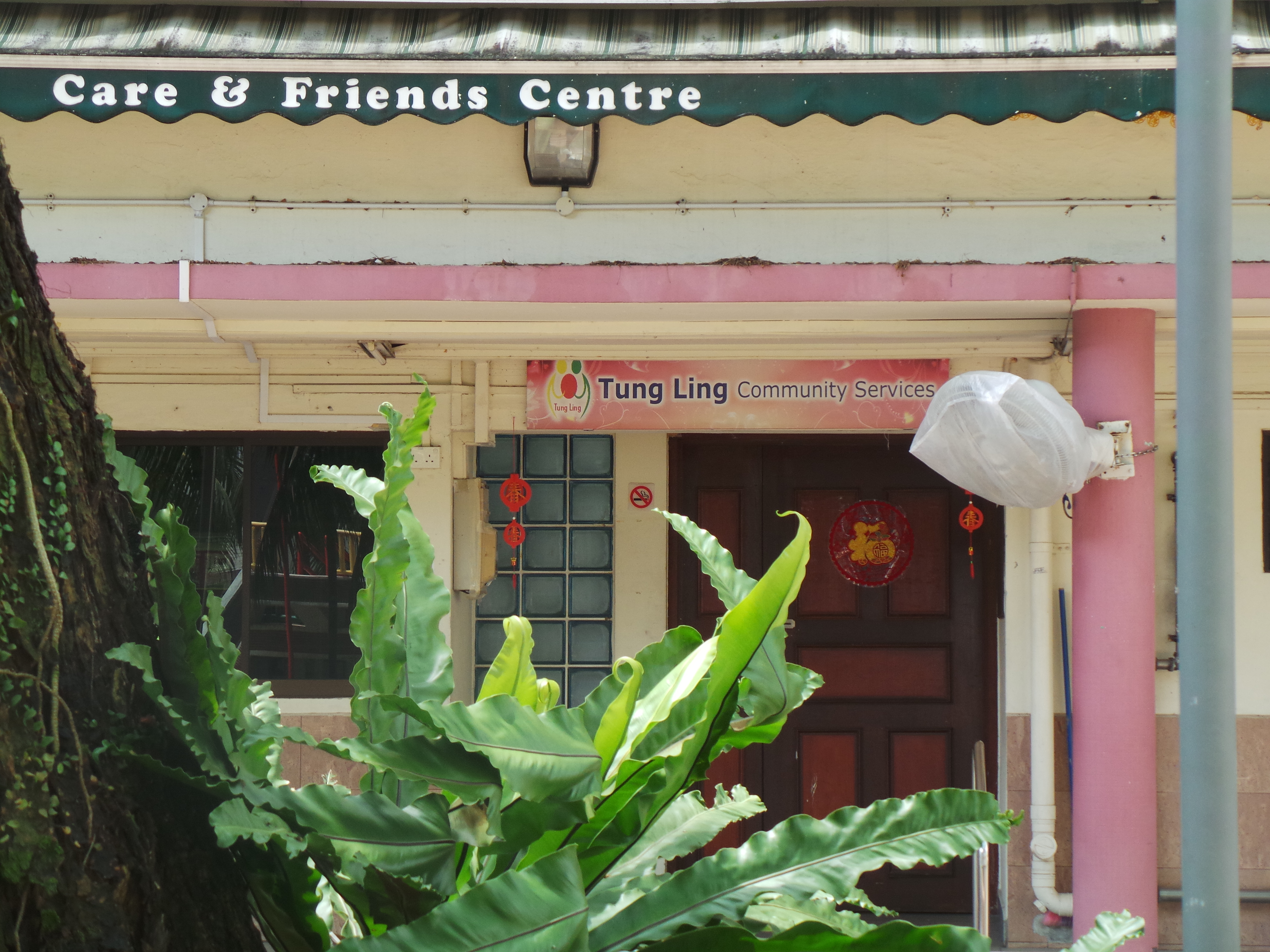 Tung Ling Community Services